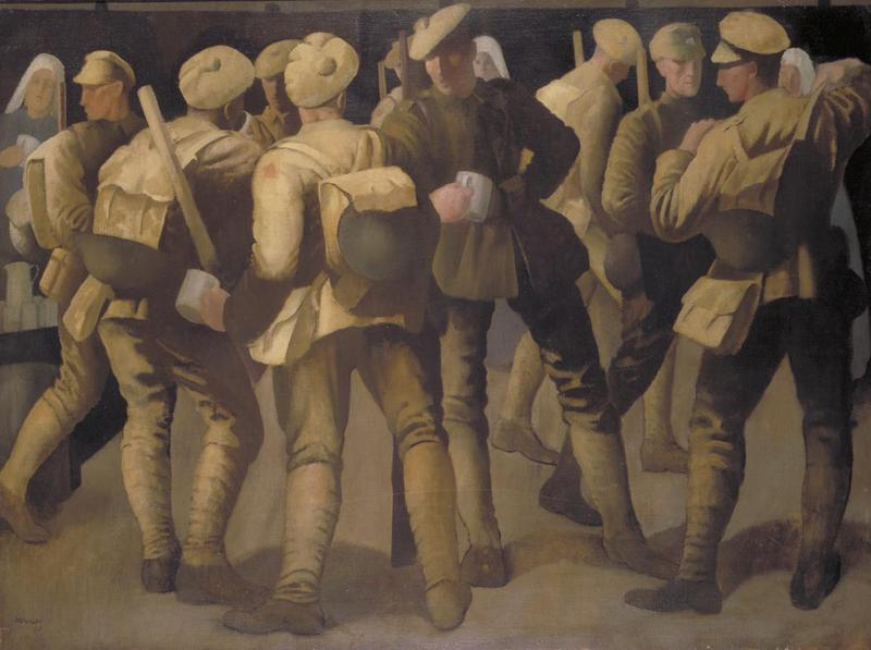 The Arrival image: A group of soldiers in distinctive khaki bonnets make stand on the platform of a railway station, having arrived on leave. Each carries a small pack on their back and many of the men carry a tin mug in their hands.